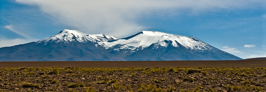 The Cerros de Tocorpuri volcanic complex, Chile - II Region